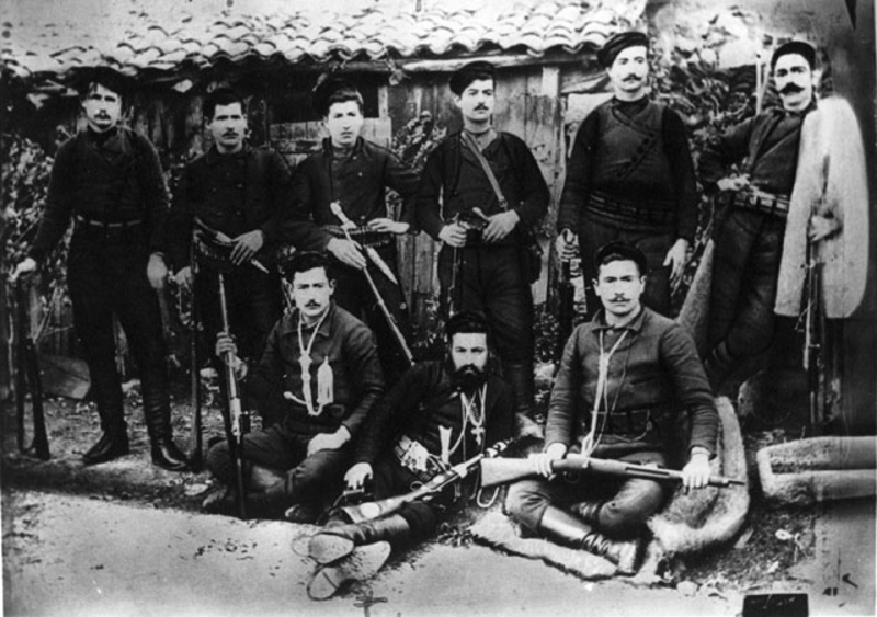 Nikolaos Andrianakis